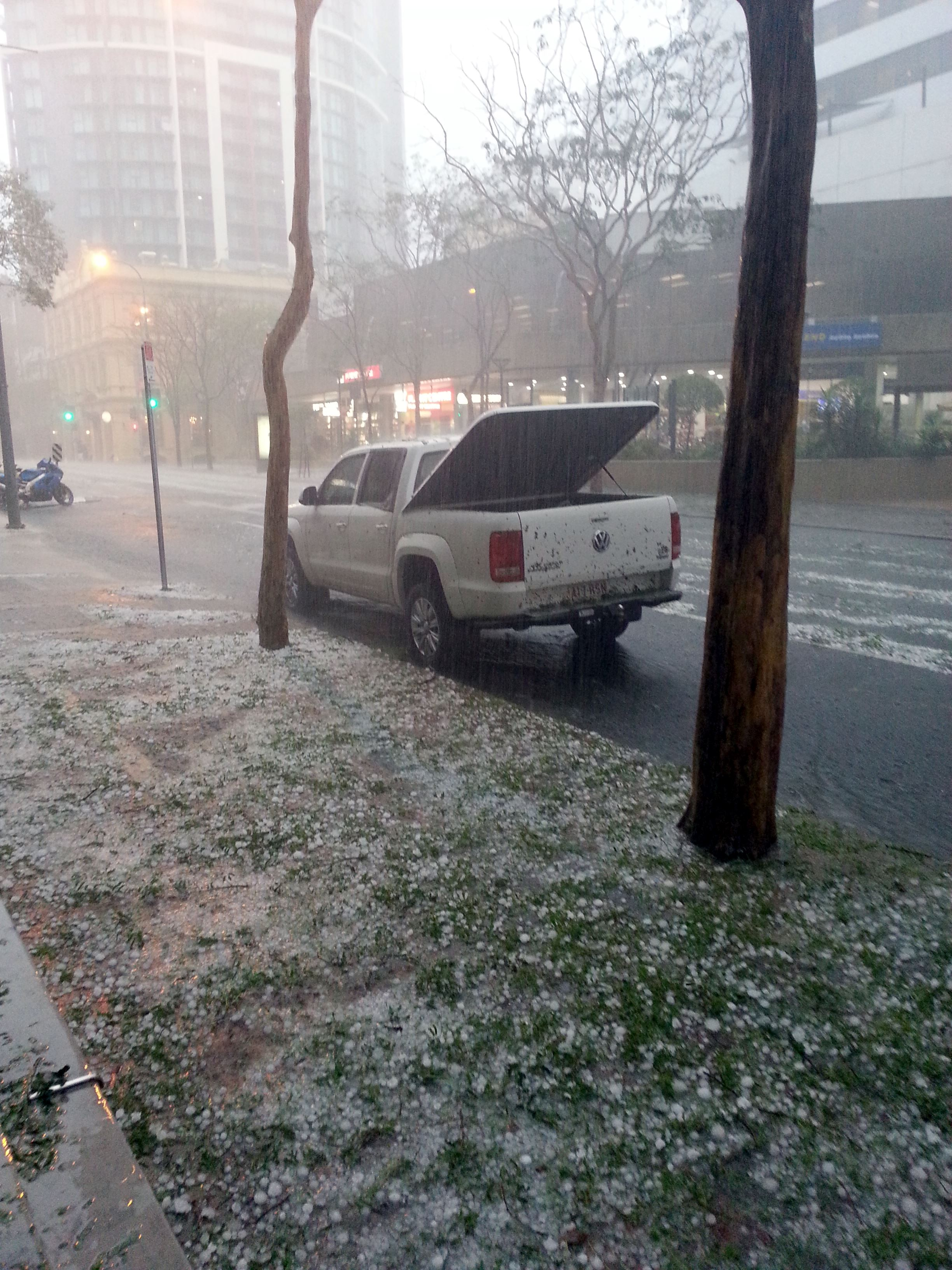 Picture taken during the hailstorm on 27 November in the Brisbane CBD. This is on Mary Street, and the green on the footpath is leaves that have been blown off of the trees, not grass.